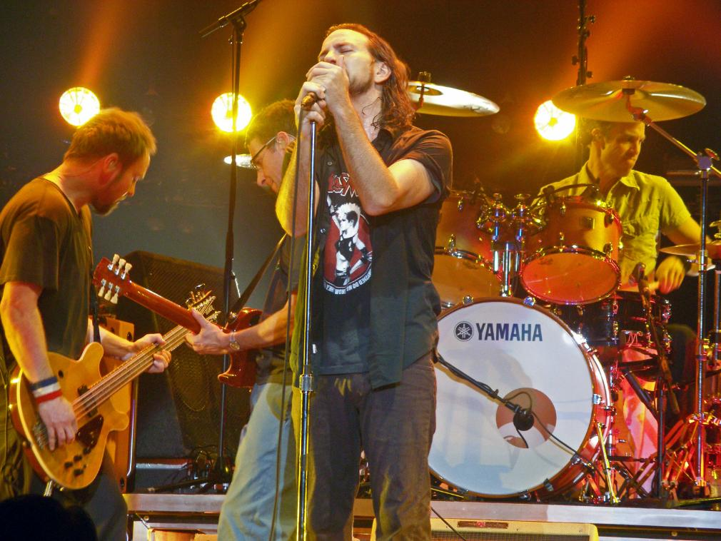 Pearl Jam perform on stage in Albany, NY